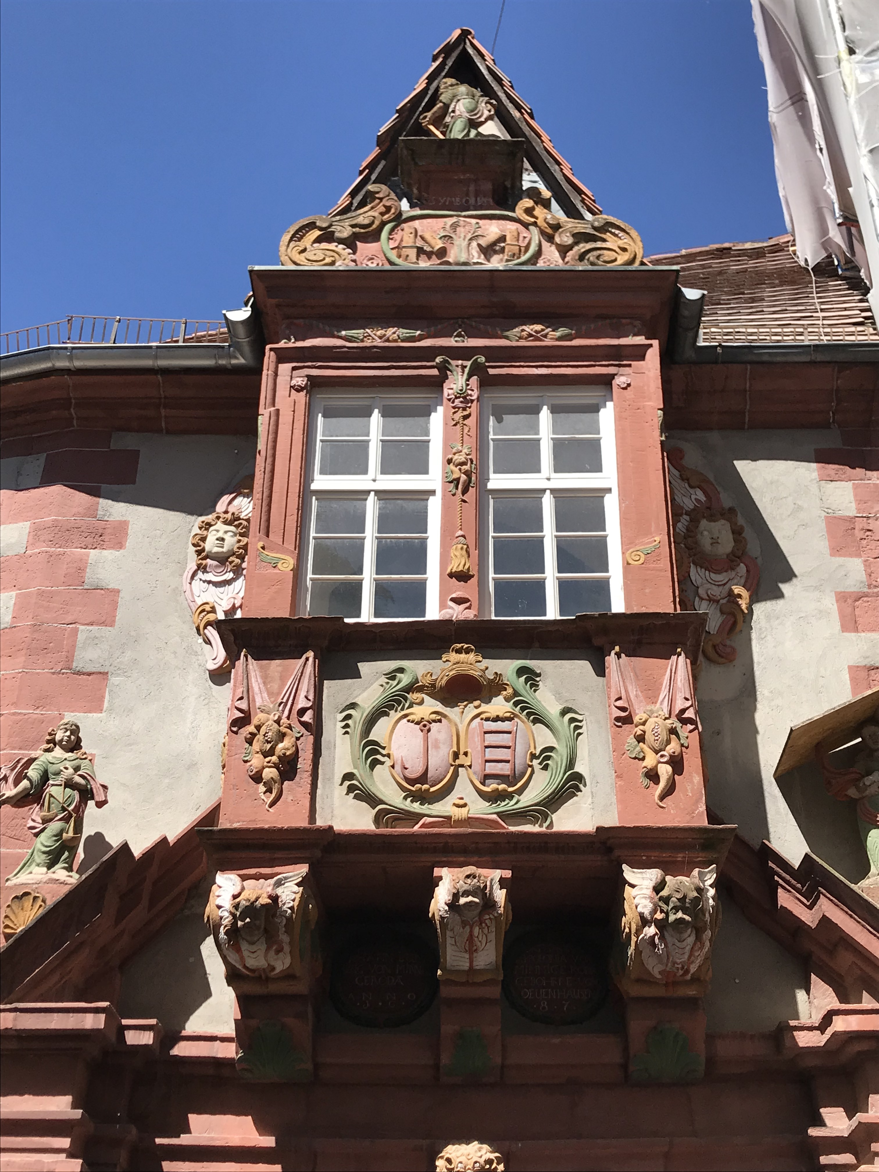 Medieval house, Sackgasse, Alsfeld, Hesse, Germany